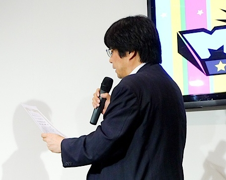 Takaaki Kidani, President of the Bushiroad, Inc., visited the Anime Festival Asia in Singapore on November, 2010.